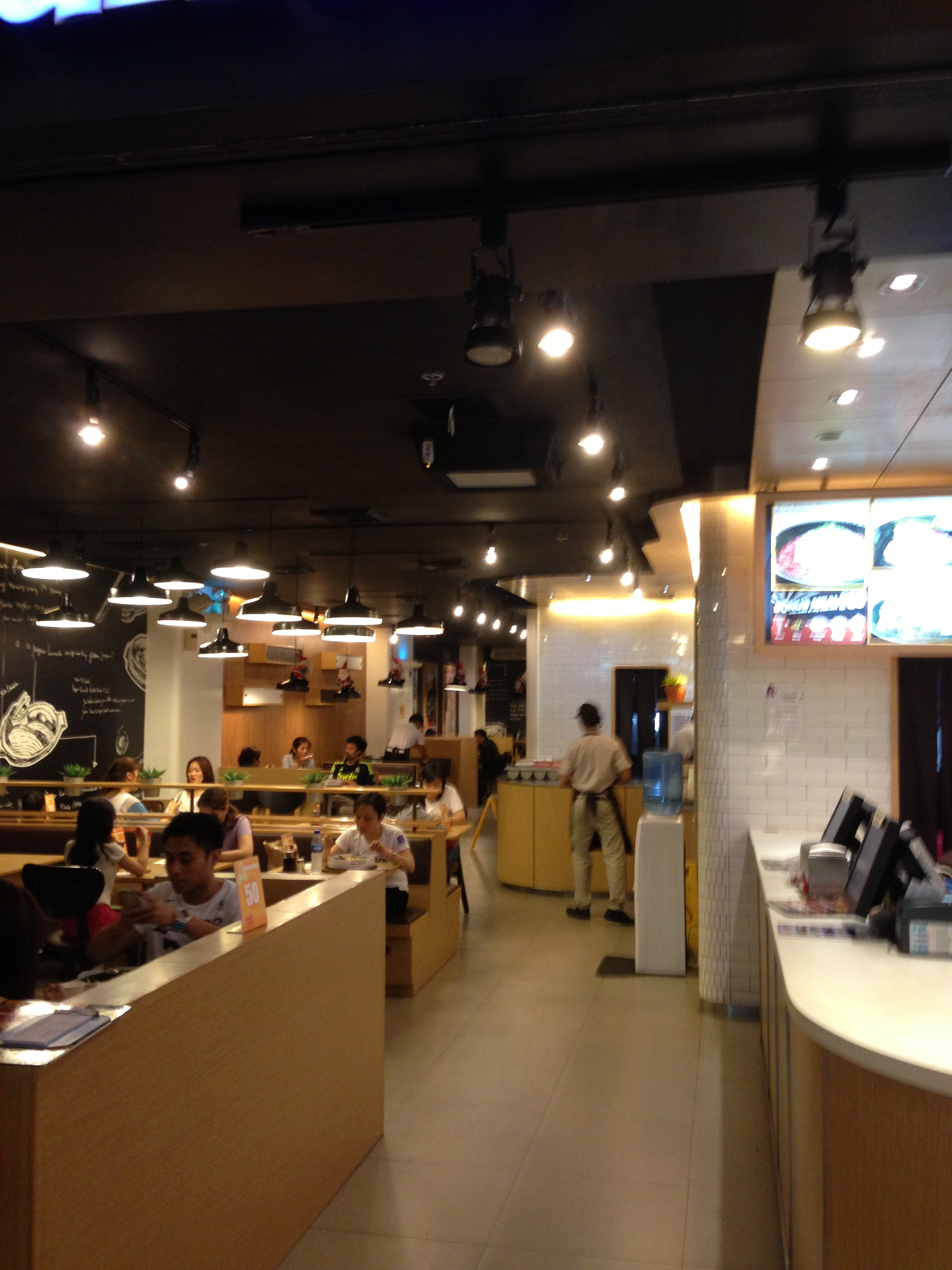 The interior of a Pepper Lunch restaurant at Power Plant mall.